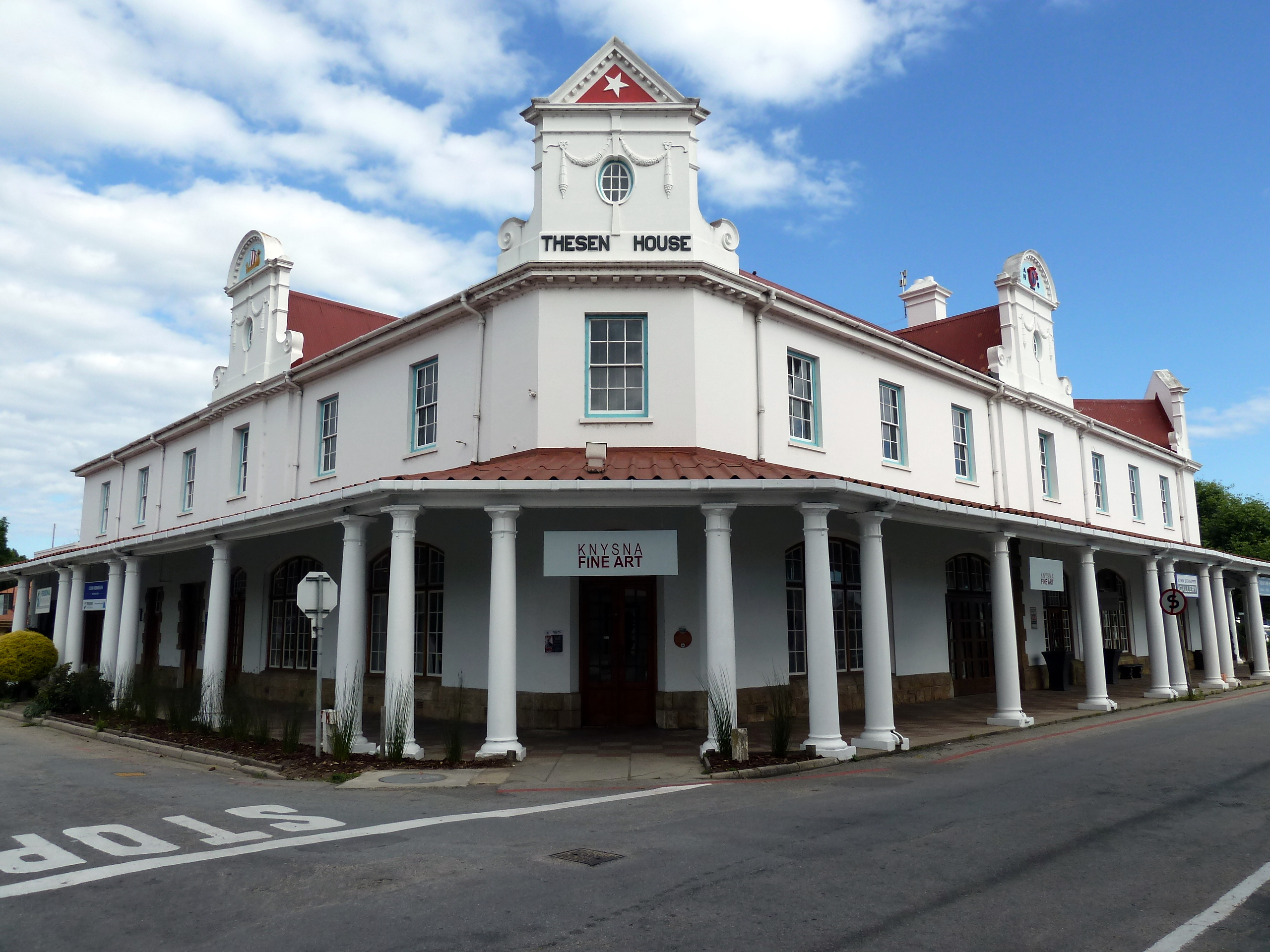 Thesen House